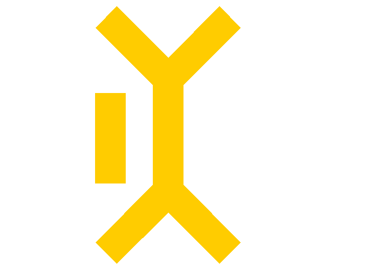 Mark of Ww2 GermanDivision Panzer 9 - 1939